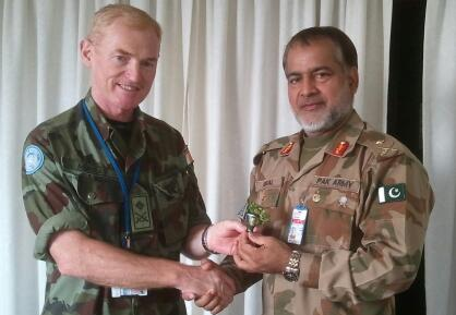 Lt Col Michael Murray, Military Observer with the United Nations Operation in Cote D’Ivoire presenting shamrock to the Force Commander Maj Gen Muhammad Iqbal Asi (Pakistan).